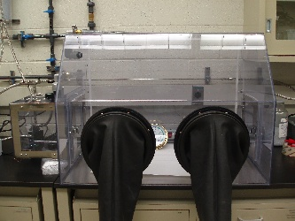 Terra Universal 100 Glovebox